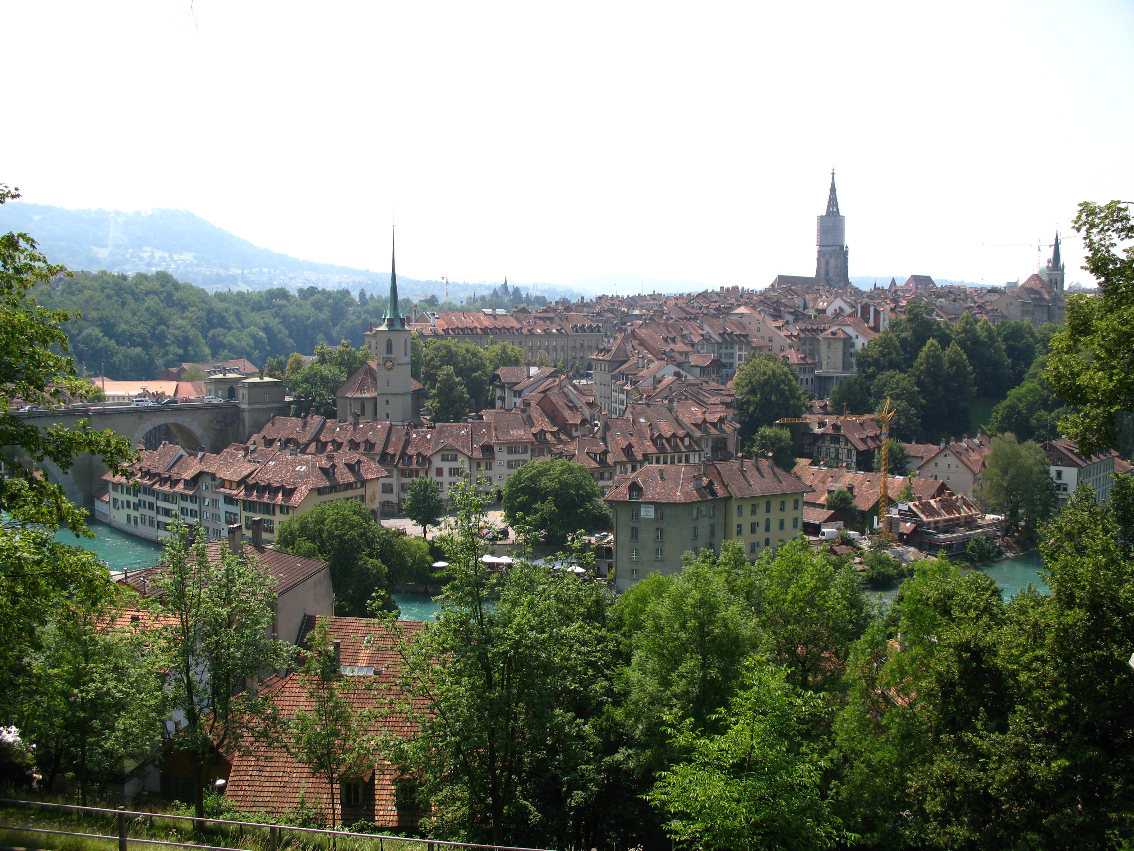 View from Lerber Street, Berne, Switzerland